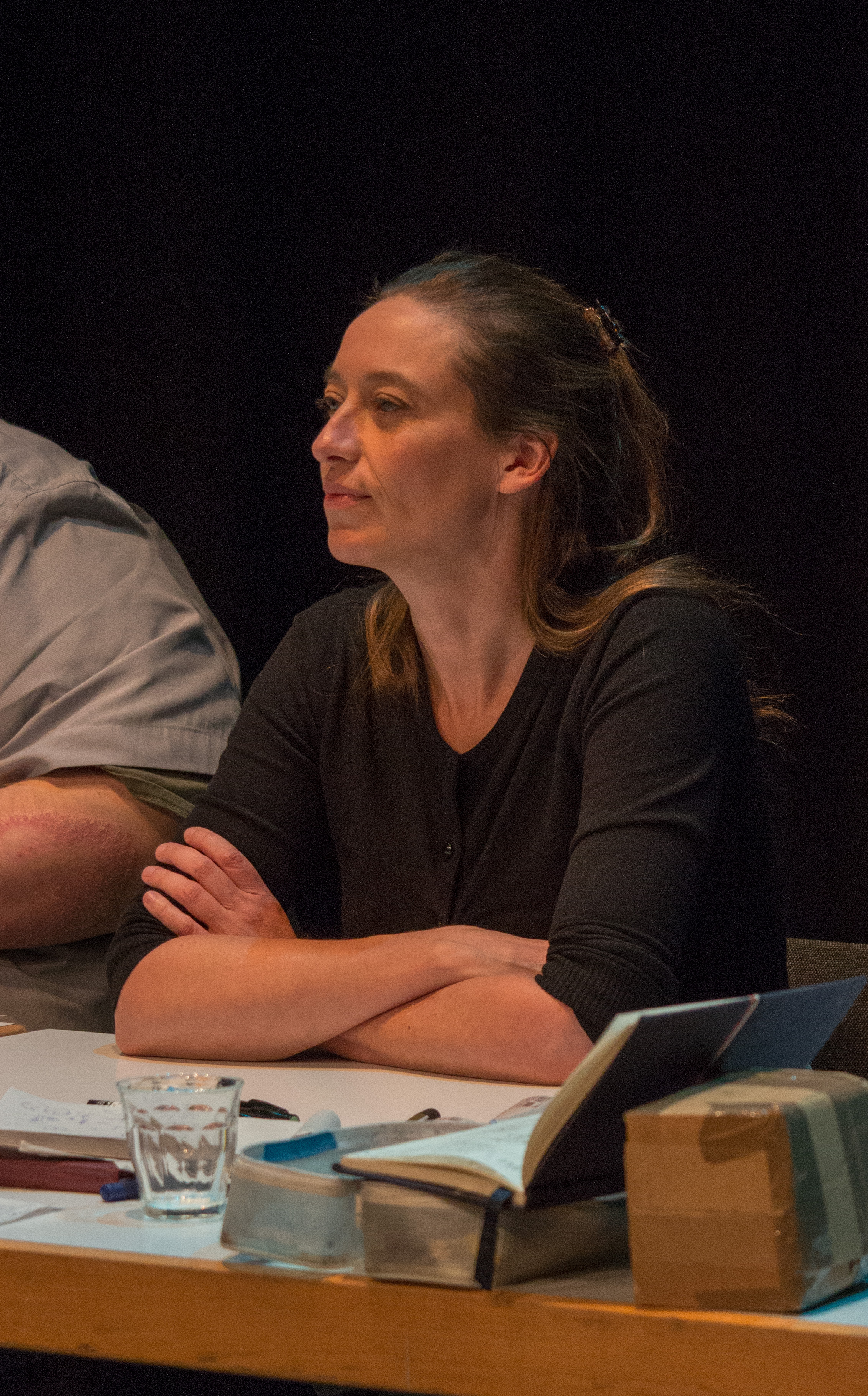 Maaike Hartjes at the first edition of the CrossComix Festival